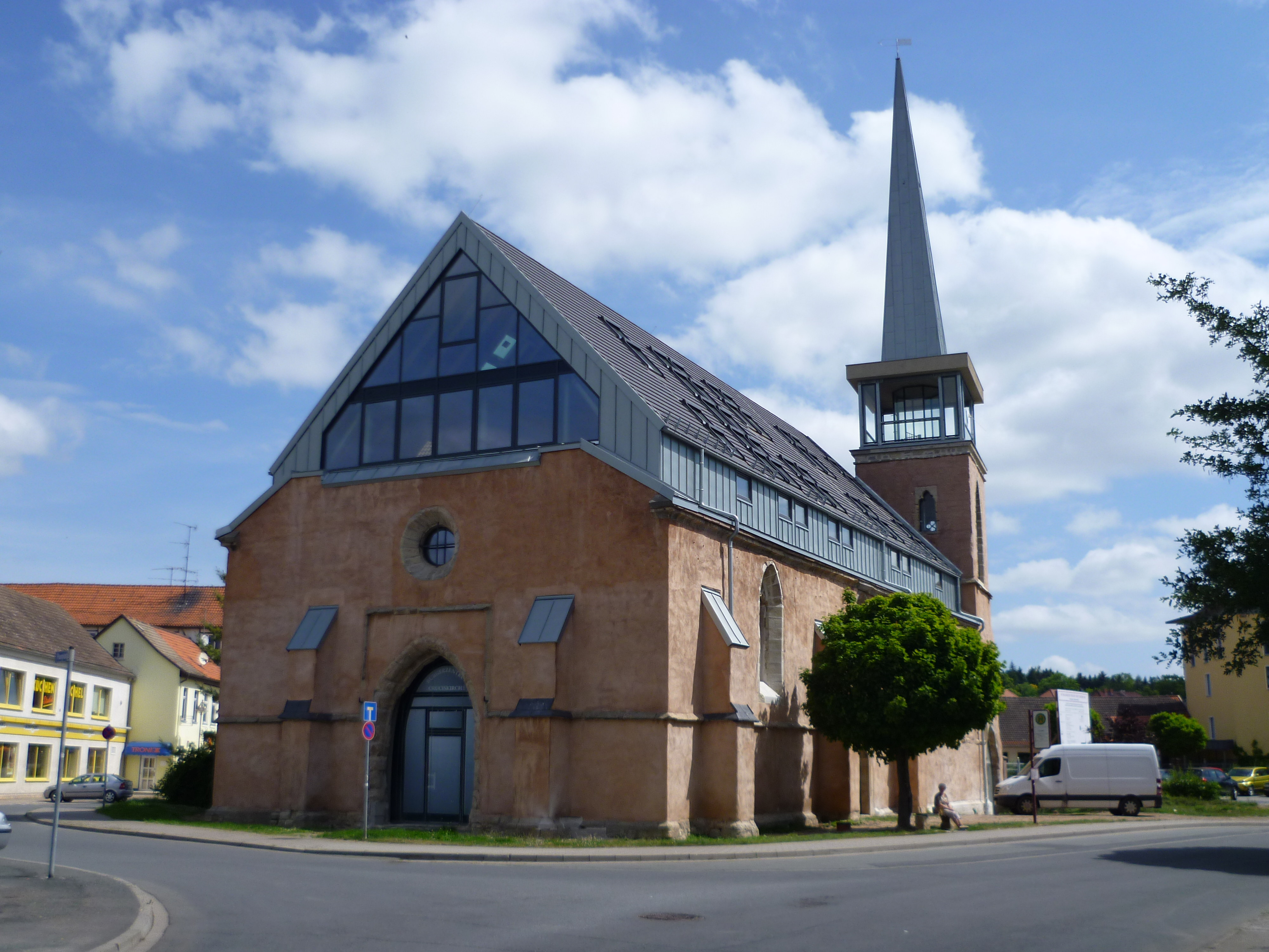 crucis-church of Sondershausen